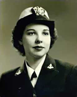 World War II WAVE and Code Talker Ens. Winnie Breegle, USN, served on active duty from 1944-1949 as a cryptographer and code talker. Breegle served as the keynote speaker at the 2012 Naval Surface Warfare Center Panama City Division's keynote speaker.